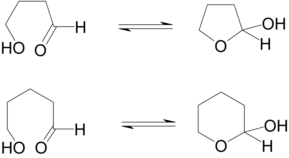 Formation of lactoles / Bildung von Lactolen